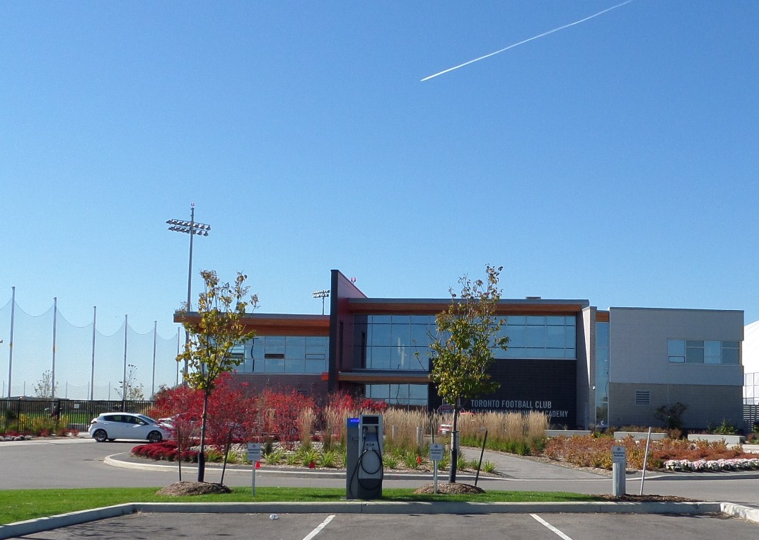 Front entrance of Toronto FC's training facility, Kia training ground and academy.